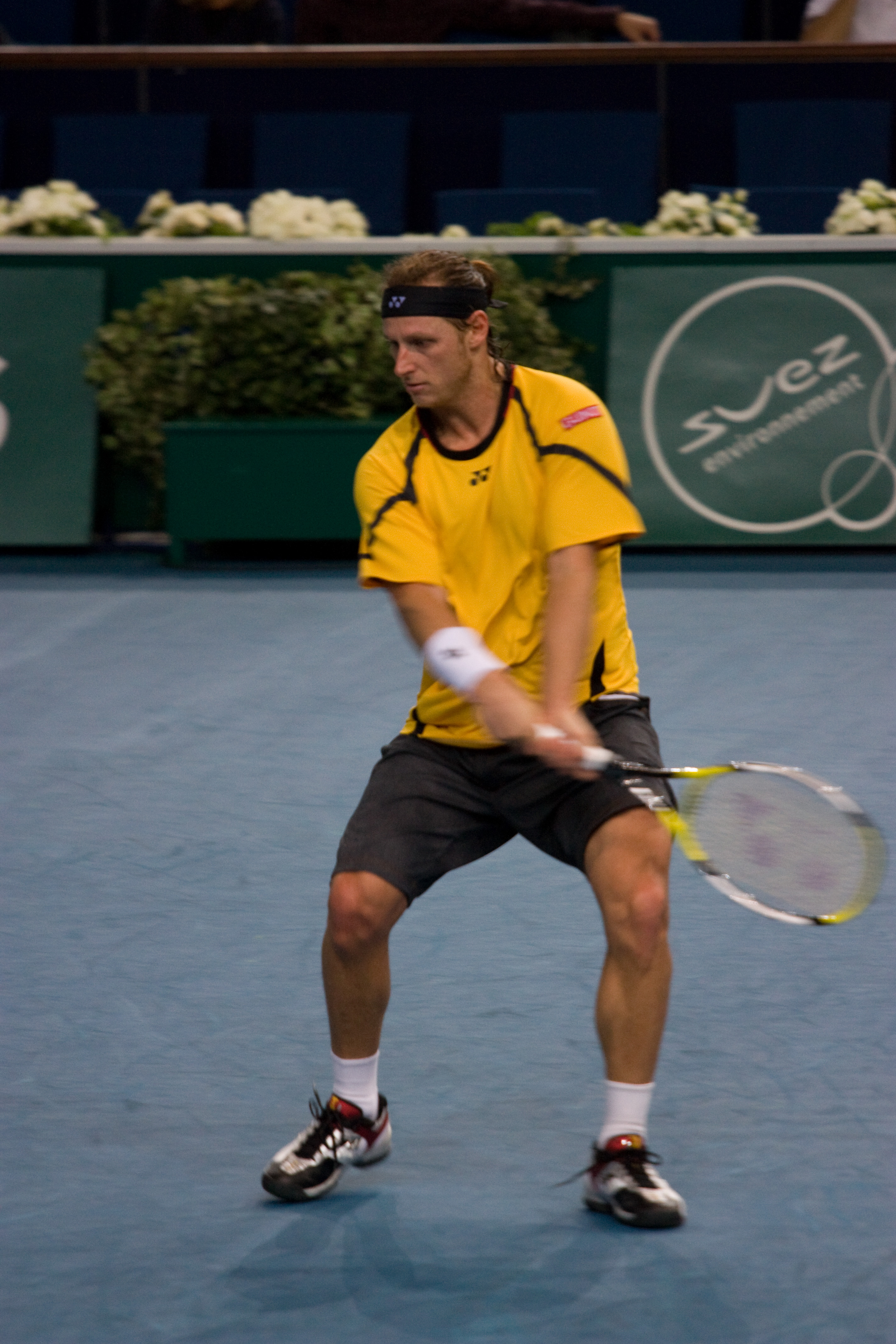 David Nalbandian against Nicolas Kiefer at the 2008 BNP Paribas Masters